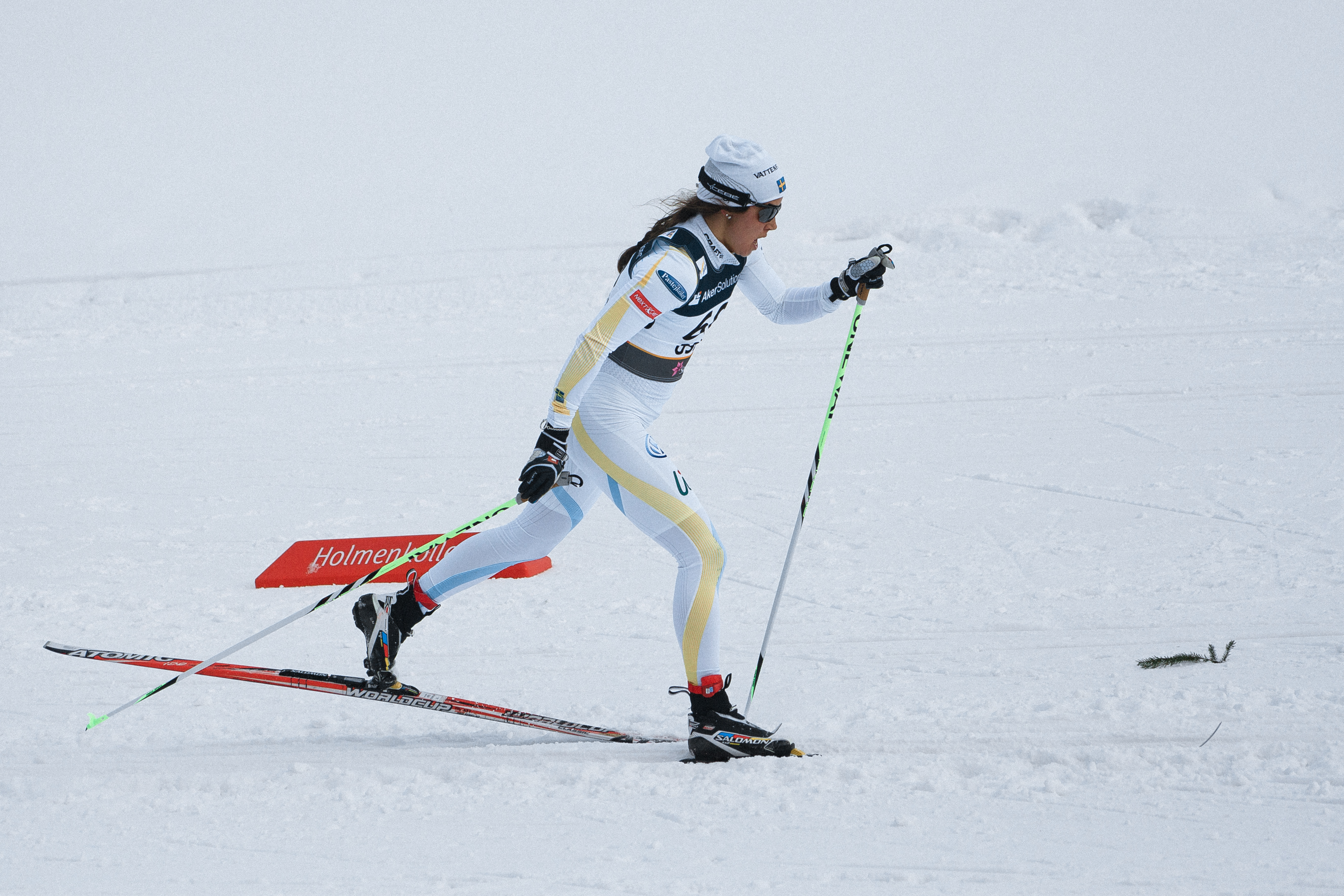 Swedish cross-country skier Anna Haag in the women's 10 km classic race at the 2011 FIS Nordic World Ski Championships in Oslo, Norway.